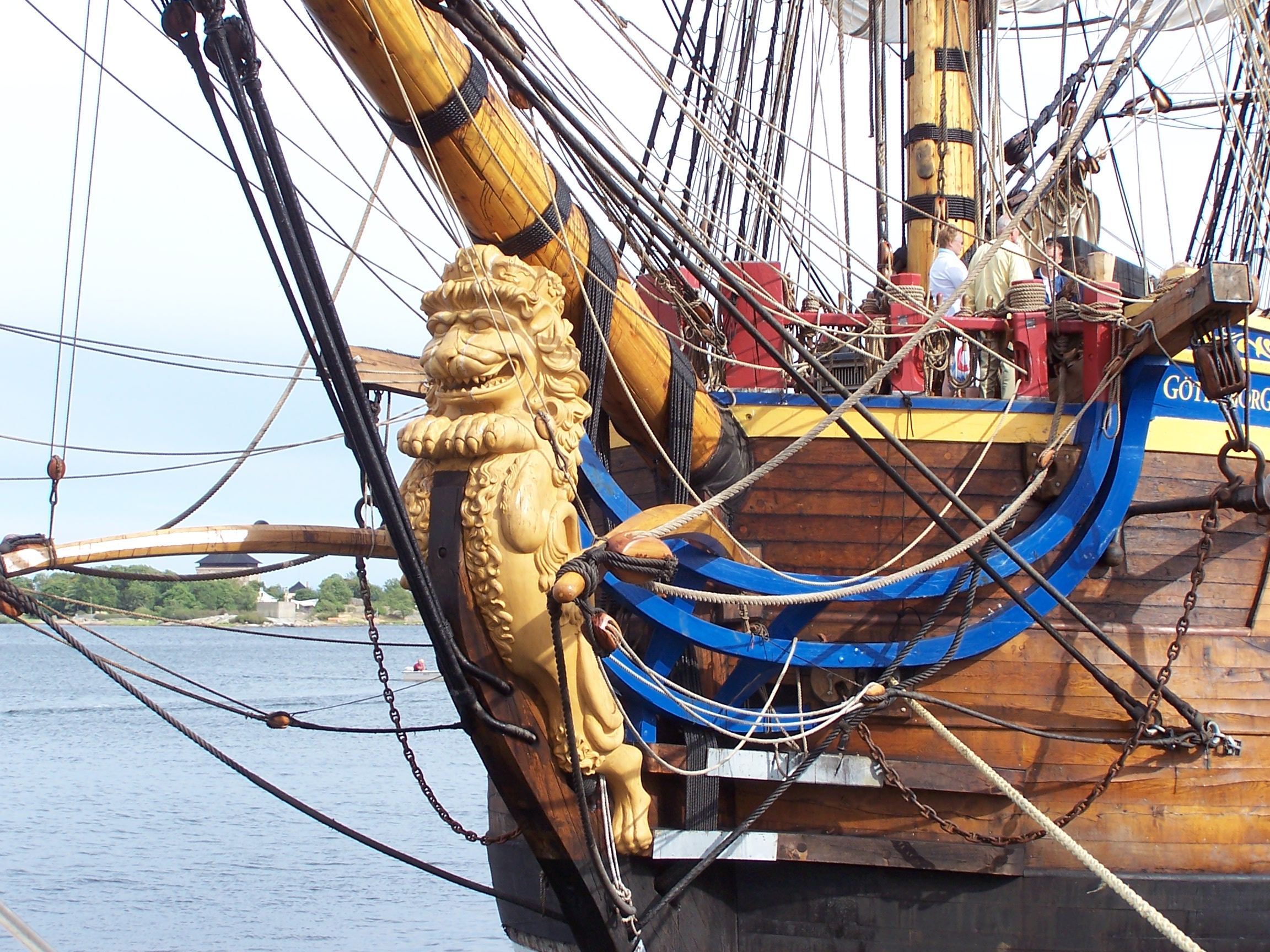 The figurehead on Götheborg (sailing ship replica).